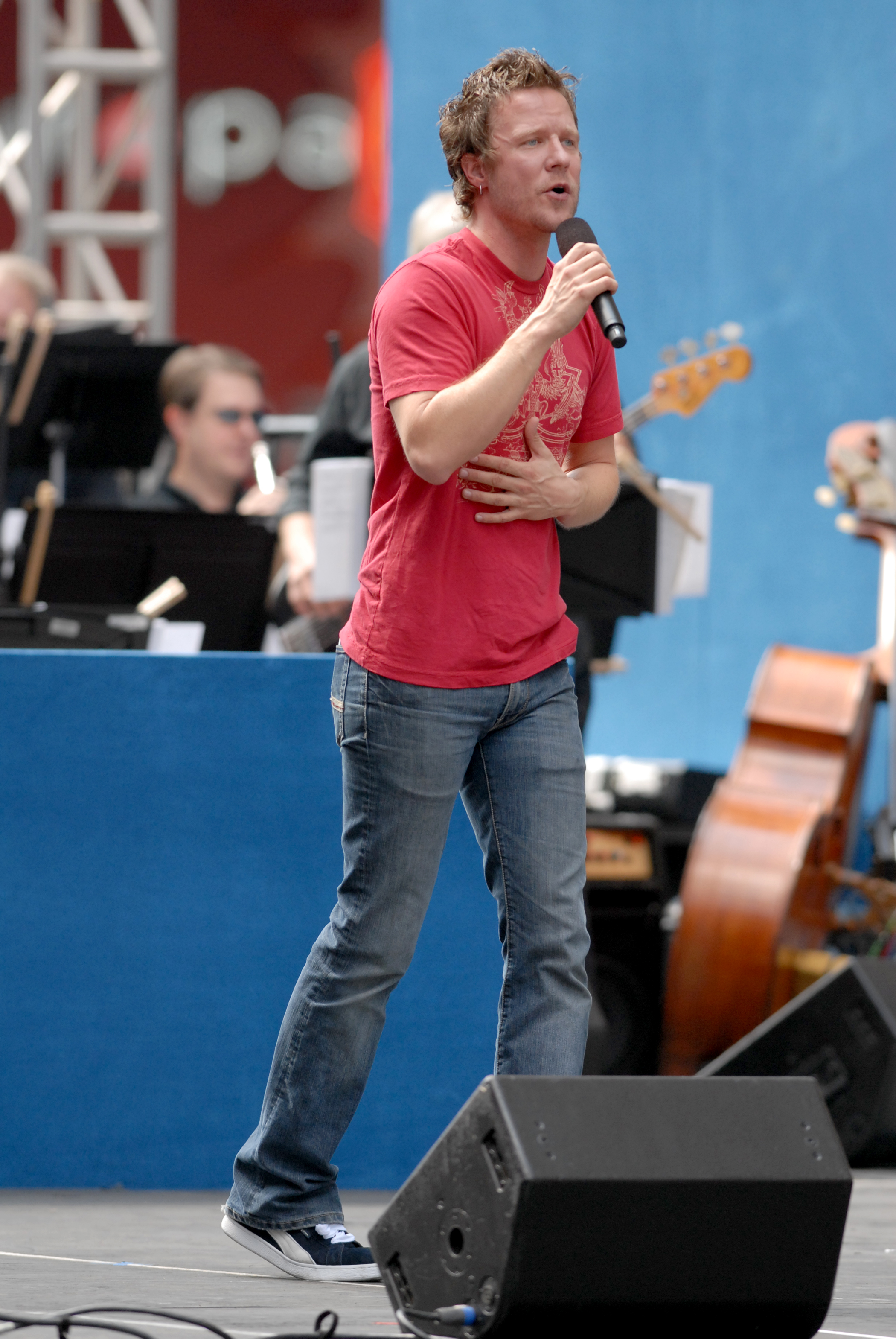 High Fidelity cast member Will Chase performs "Desert Island Top 5 Break-ups" at Broadway on Broadway, September 10th 2006.